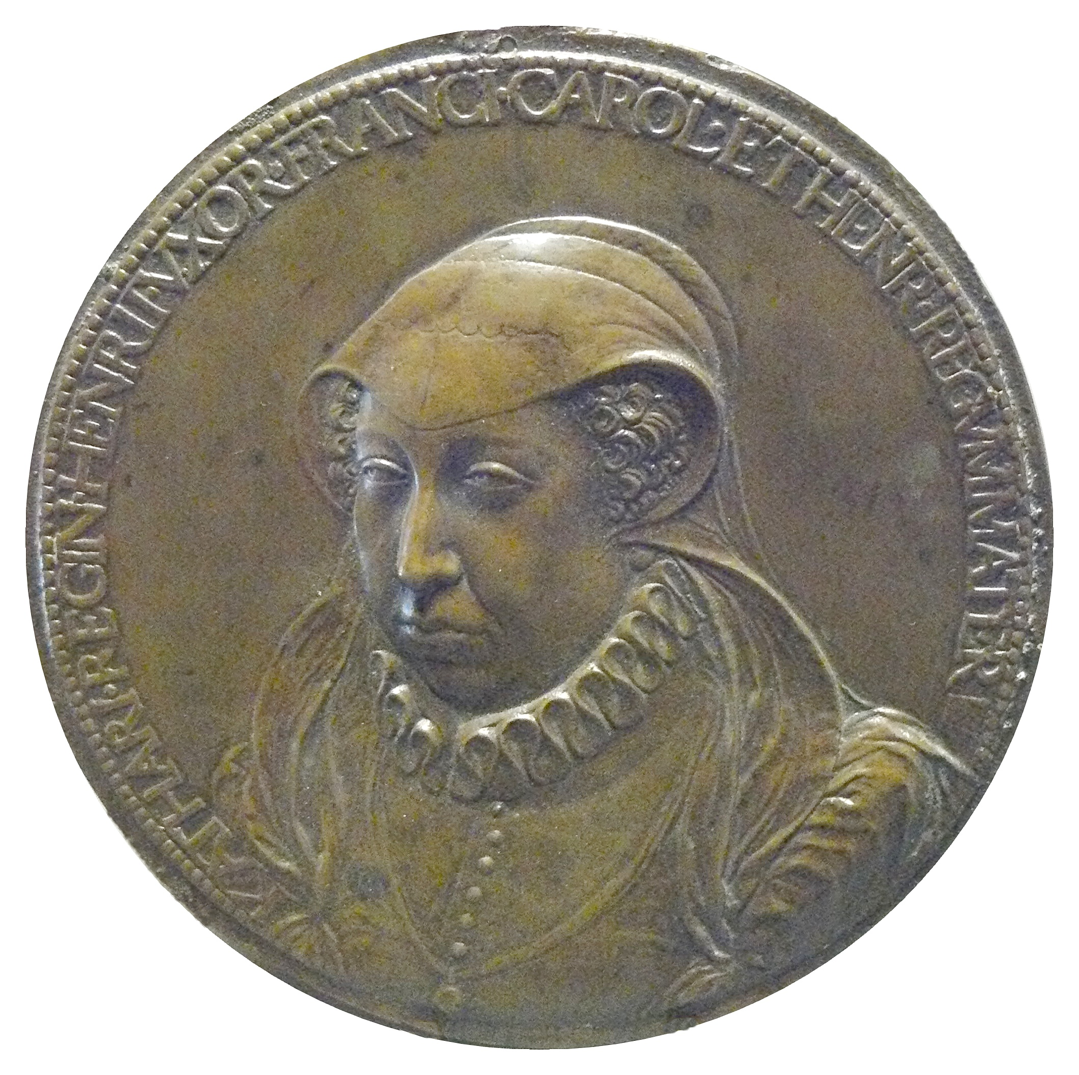 Portrait of Catherine de Médicis (1519-1589)